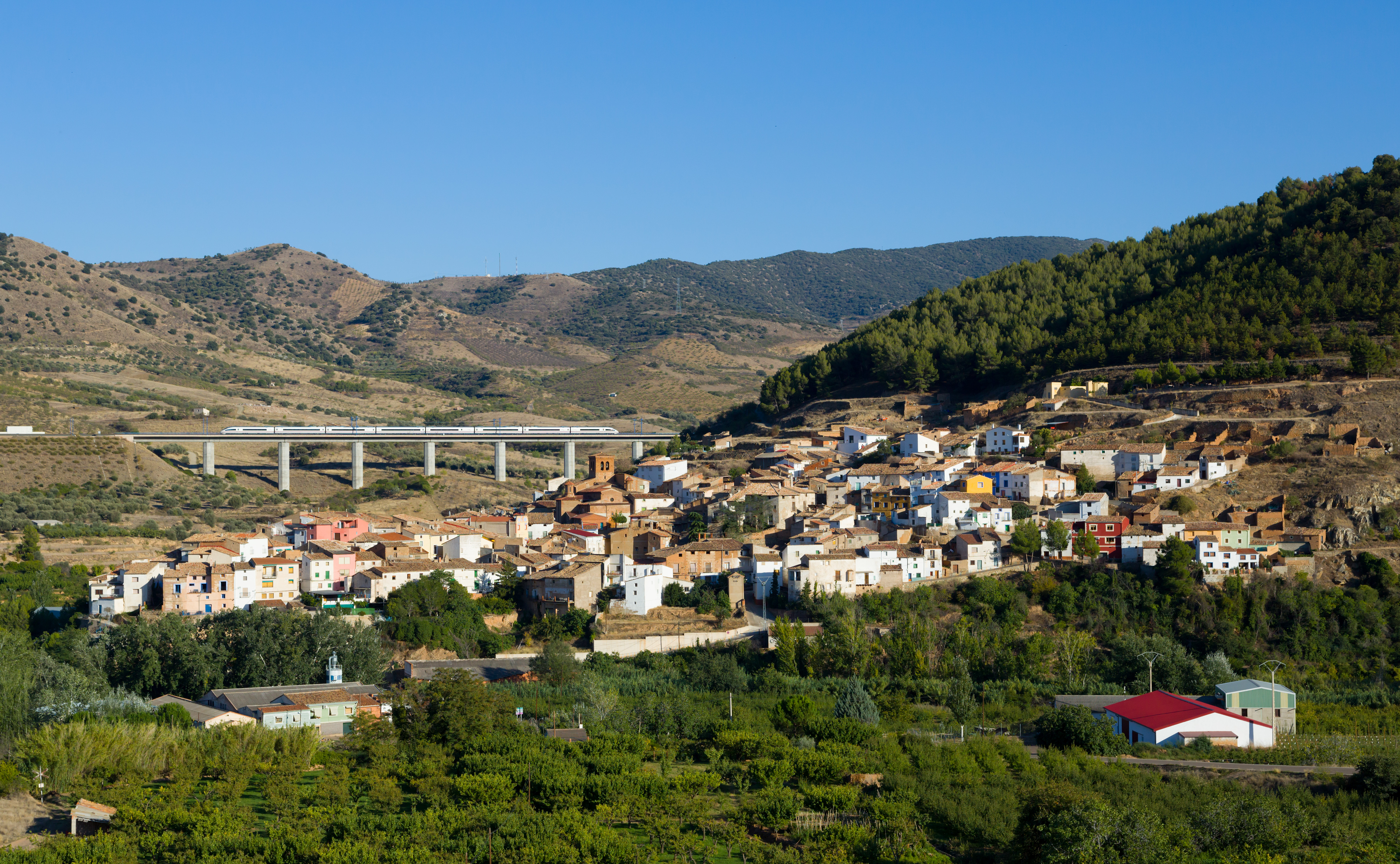 A RENFE class 103 "Siemens Velaro" trainset is passing the town Paracuellos de la Ribera at about 300 km/h on the LAV (Línea de alta velocidad) Barcelona - Madrid.